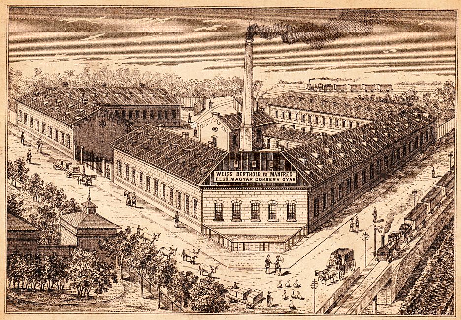 Trade card showing the canned food factory of the brothers Weiss, the first in Hungary. It was founded around 1880 in Csepel, now part of Budapest. The reverse of the card mentions various meat products in cans and their prices ('0,5 Kg Goose Liver naturel 1 Fl 30 Kr', that was 70 dollarcents in 1885). The original measures 10 x 14 cm.